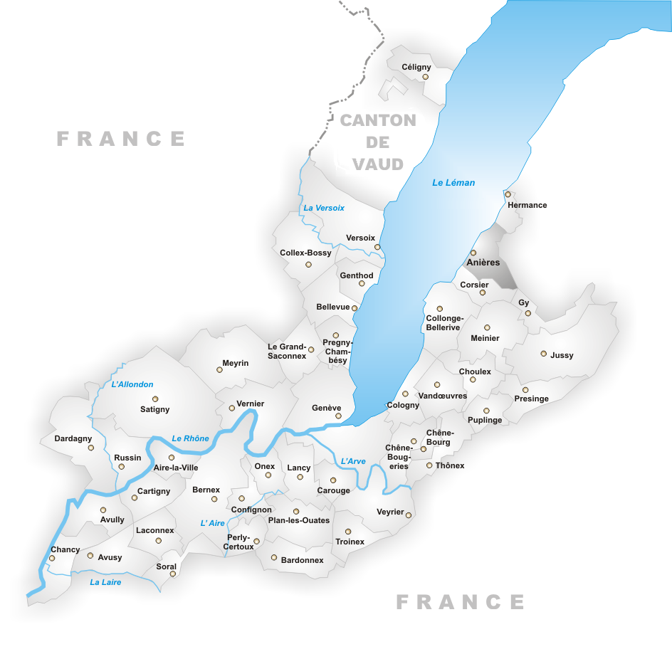 Copy of Image Carte_Commune_Anières.png, with a correct naming